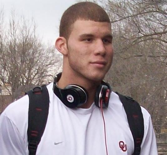 Blake Griffin, basketball player for the Oklahoma Sooners men's basketball team, pictured here in 2009.